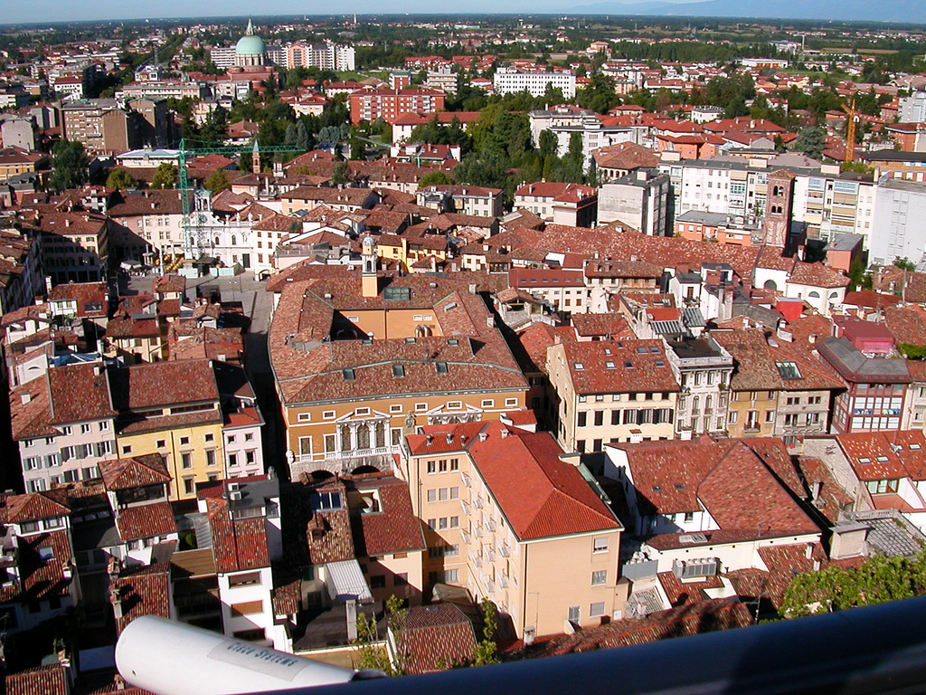 Udine panorama west